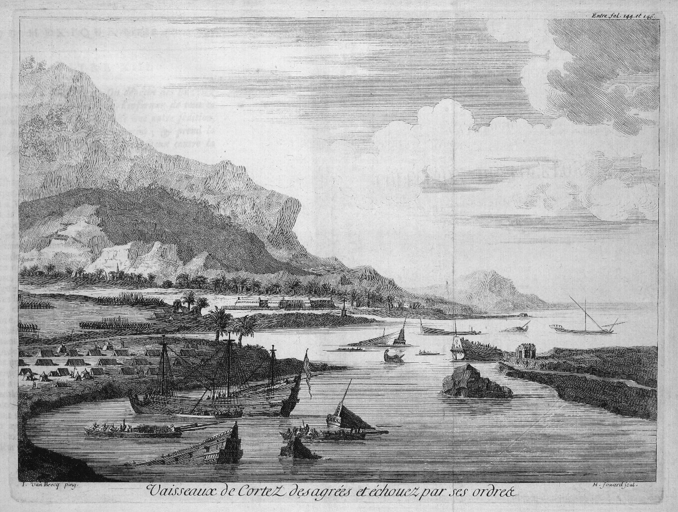 Cortés gave the order to sink his own ships - Copper-plate engraving from Van Beecq